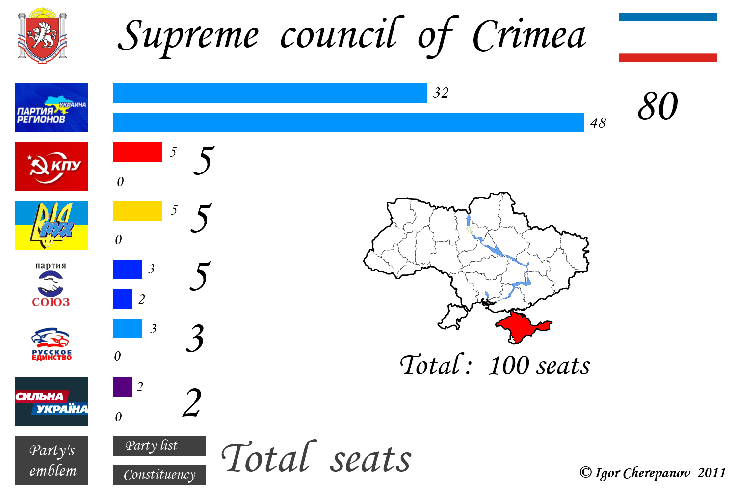 Results of Crimean parliamentary election, 2010 Party of Regions 80 seats Party Union 5 seaats Qurultai-Rukh (People's Movement of Ukraine) 5 seats Communist Party of Ukraine 5 seats Party Russian Unity 3 seats Party Strong Ukraine 2 seats